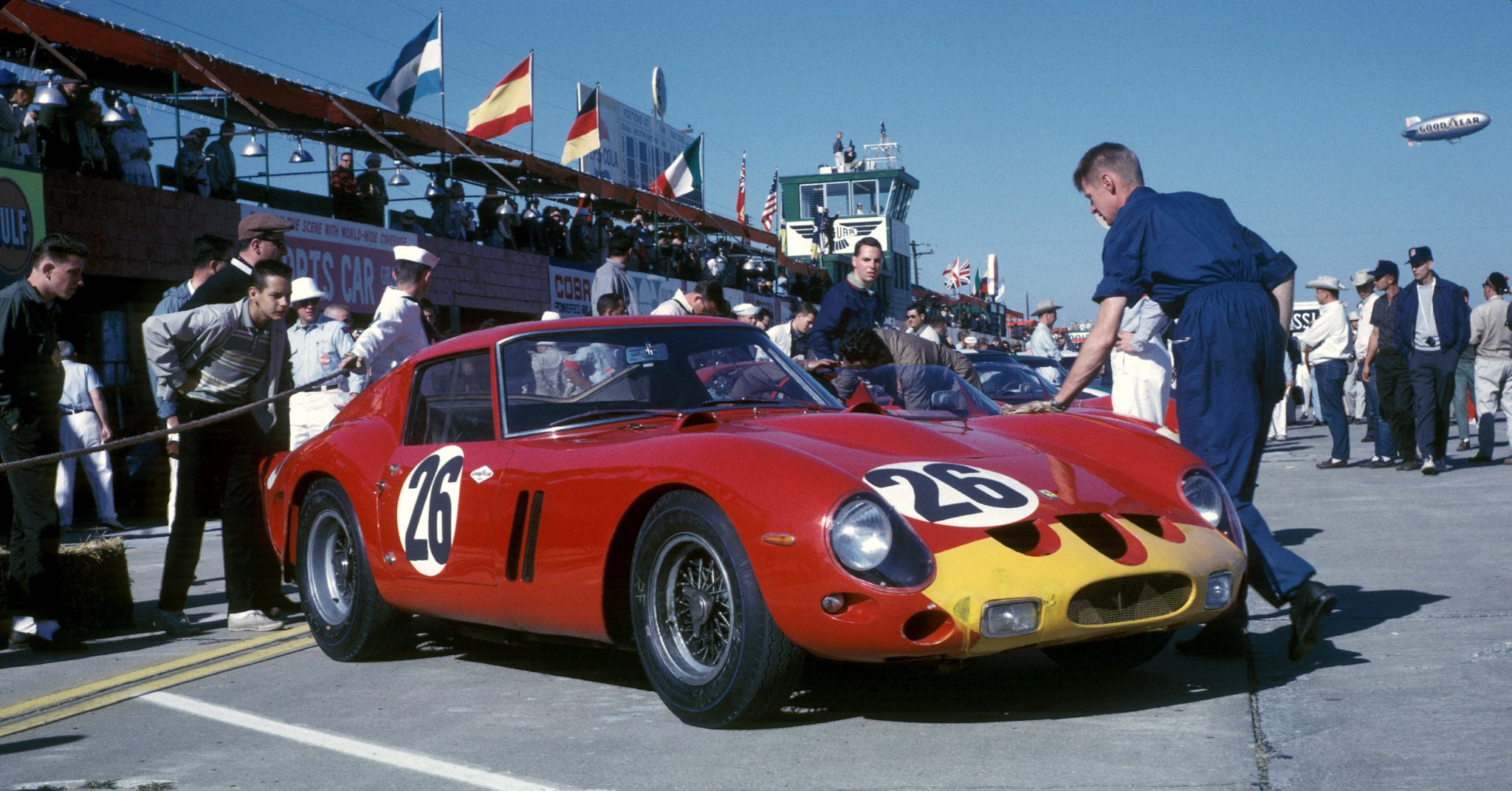 1962 Ferrari 250 GTO s/n 3445GT at the 12 hours of Sebring race in USA on 23 March 1963. Drivers were Carlo-Maria Abate and Juan Manuel Bordeu. They ended in 5th place overall [1]